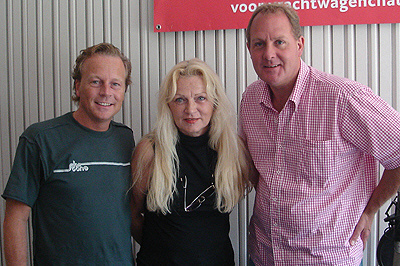 A colored picture of Toni Willé and Dennis Jones in a Dutch Radio interview programme 'Mississippi met Pussycat'